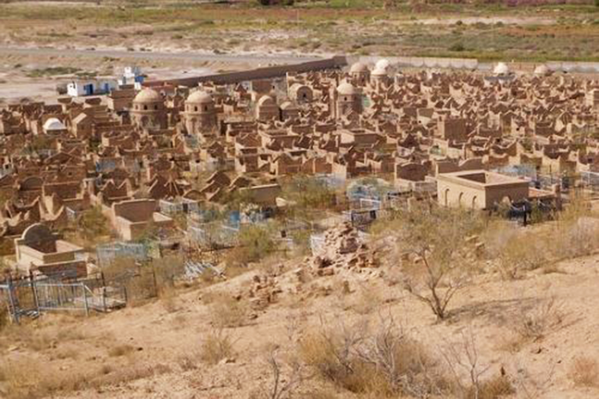 In the ancient expanses of Karakalpakstan, about 20 km from the city of Nukus, is the ancient complex Mizdahkan